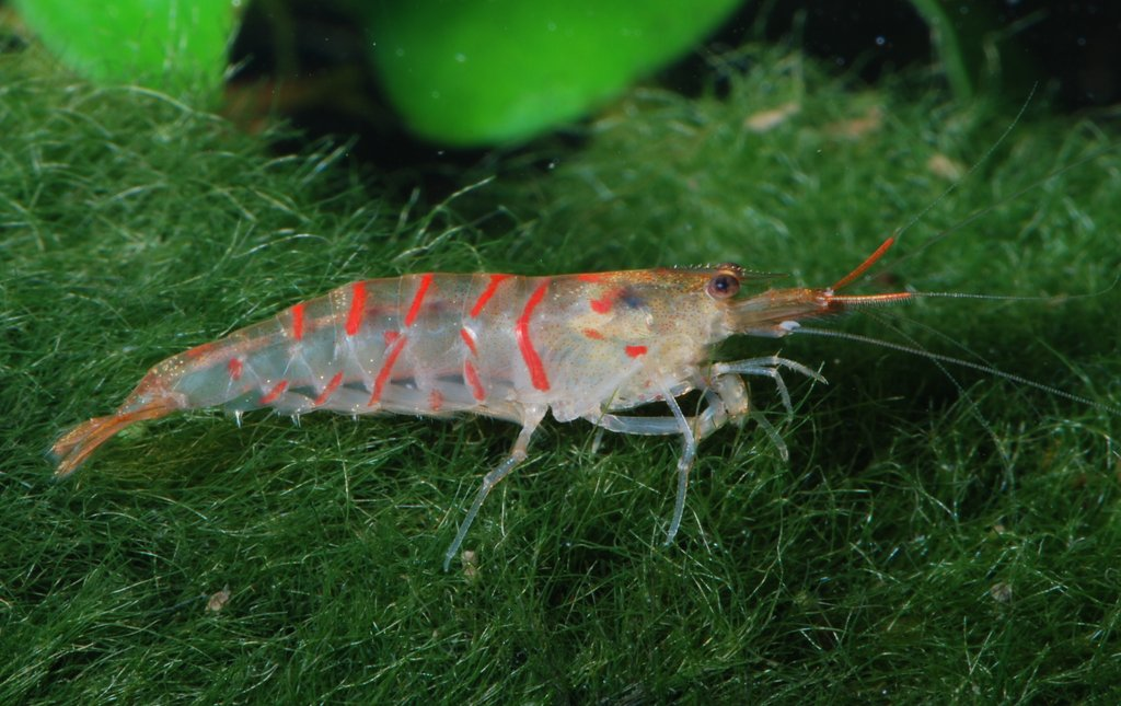 Caridina cf. cantonensis red tiger is a transparent shrimp with red tiger stripes. This shrimp is also able for keeping in freshwater tank.